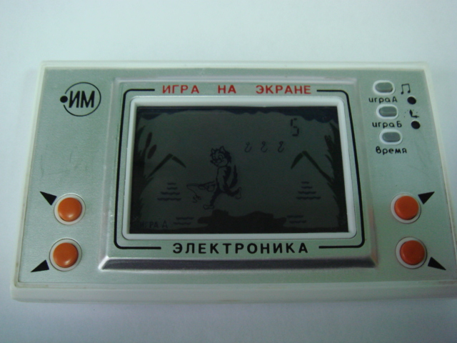 Elektronika IM-32 (Kot Ribolov) USSR electronic game